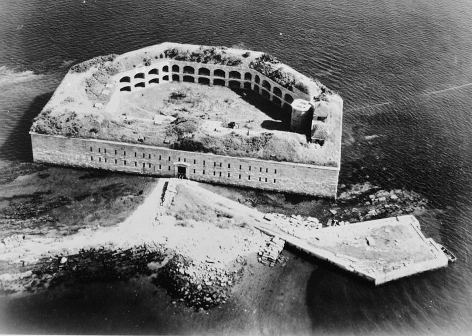 Fort Gorges, Hog Island Ledge, Portland Harbor, Portland, Cumberland County, ME